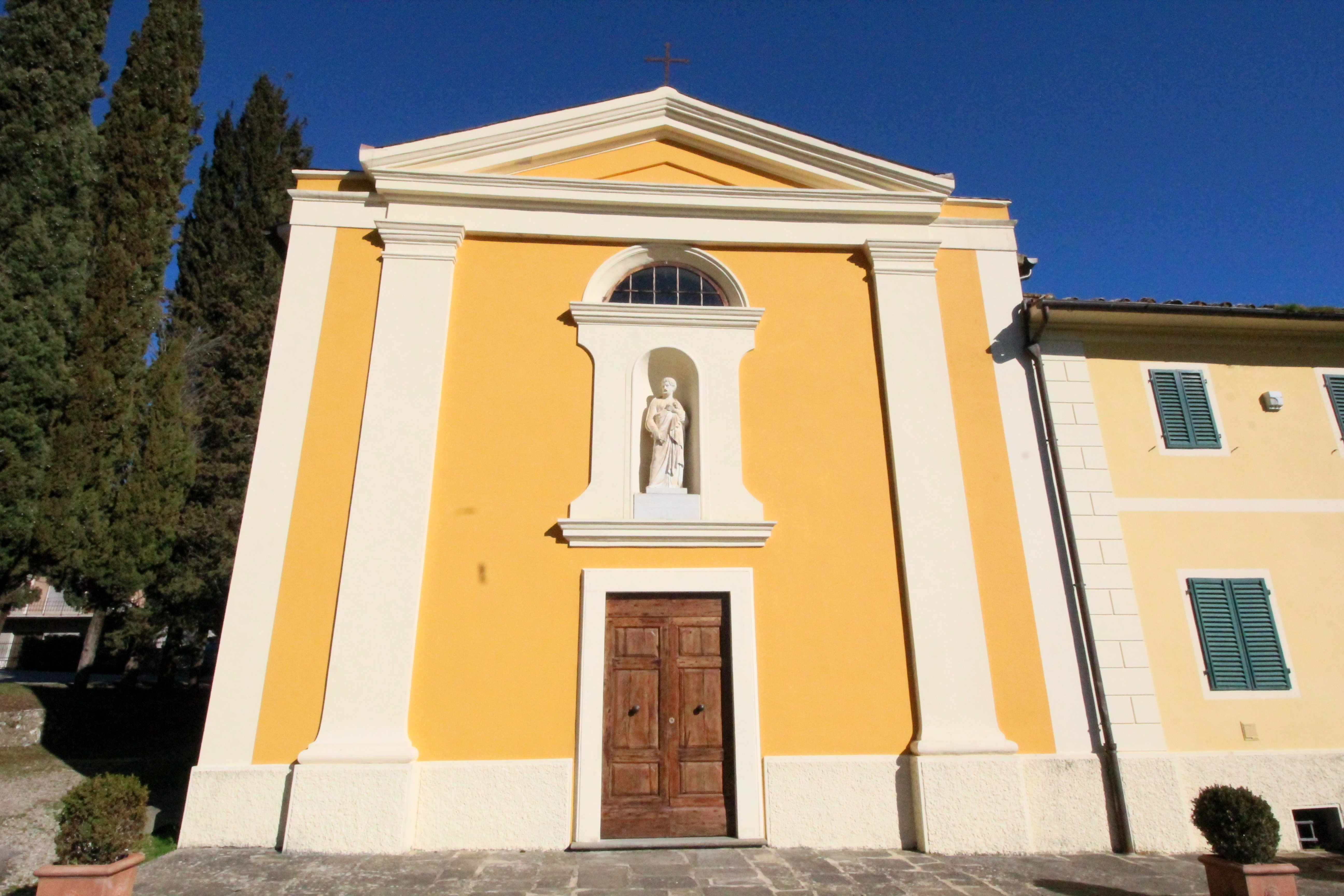 Church San Pietro a Presciano, Pieve a Presciano, hamlet of Pergine Valdarno, Province of Arezzo, Tuscany, Italy